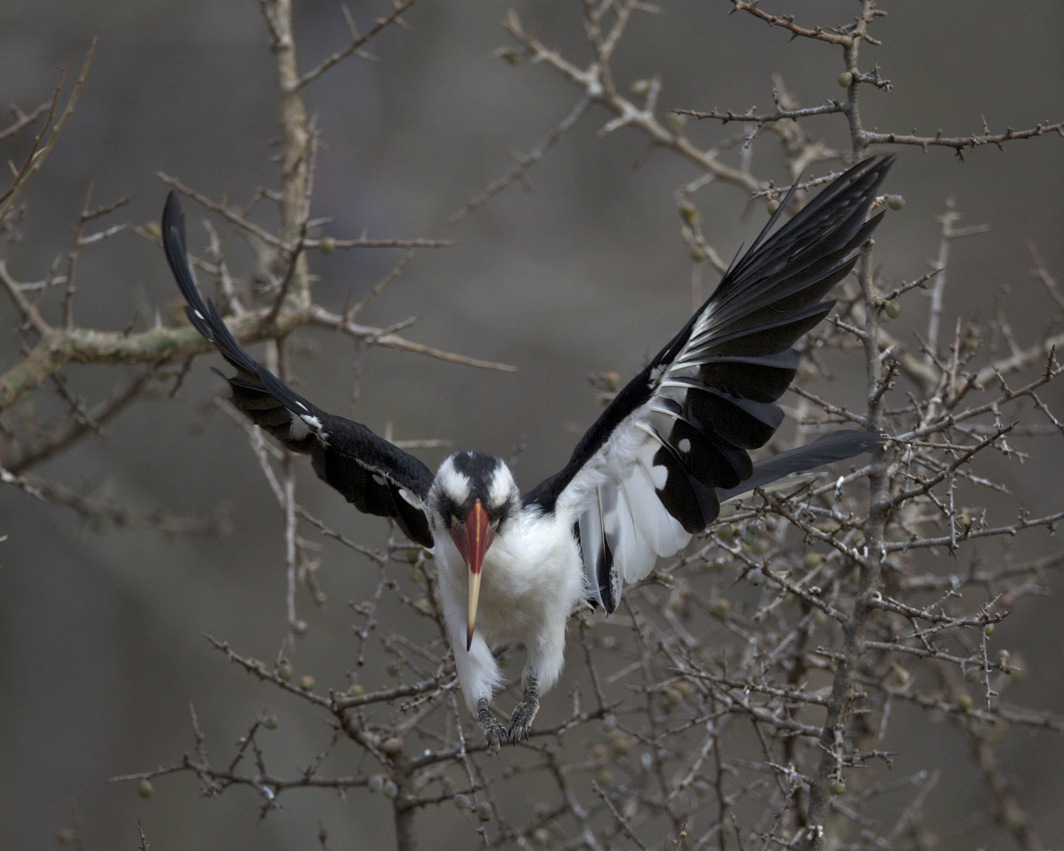 Von der Decken's Hornbill Tockus deckeni Kambi ya Tembo, Tanzania 2nd. September 2012 So I wanna fly like an eagle to the sea Fly like an eagle, let the spirit carry me I wanna fly Fly right into the future - Seal CF2P1302